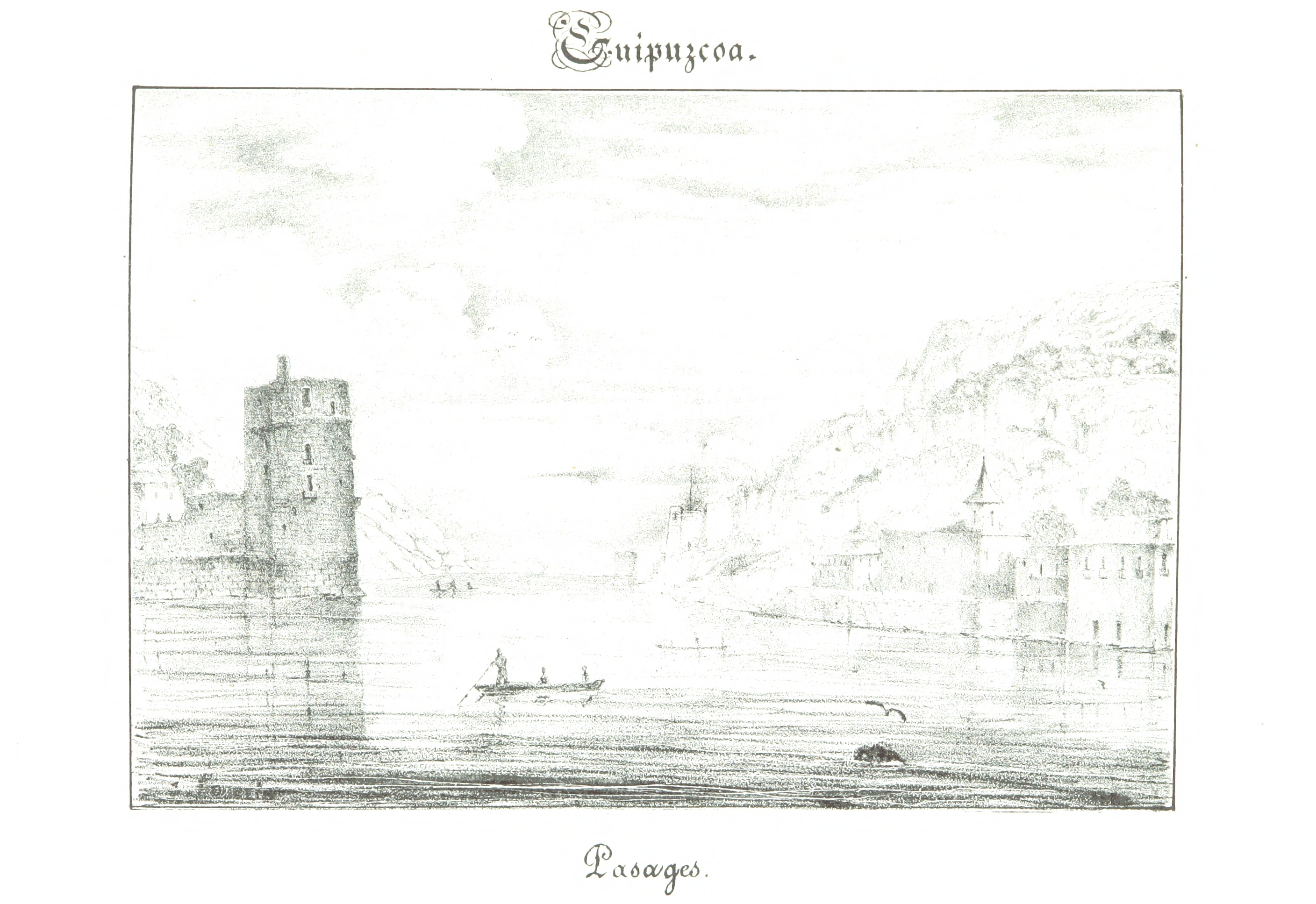 Image taken from: Title: "Revista pintoresca de las provincias Bascongadas. Edicion de lujo. Adornada con vistas ... por S. Lambla. Escrita por L. M. de E. y A. A. y H. Entrega 1-45" Author: E., L. M. de - and A. y H. (A.) Contributor: A. y H., A. Contributor: LAMBLA, Julio. Shelfmark: "British Library HMNTS 10161.f.16." Page: 413 Place of Publishing: Bilbao Date of Publishing: 1844 Issuance: monographic Identifier: 001024664 Explore: Find this item in the British Library catalogue, 'Explore'. Download the PDF for this book (volume: 0) Image found on book scan 413 (NB not necessarily a page number) Download the OCR-derived text for this volume: (plain text) or (json) Click here to see all the illustrations in this book and click here to browse other illustrations published in books in the same year. Order a higher quality version from here.